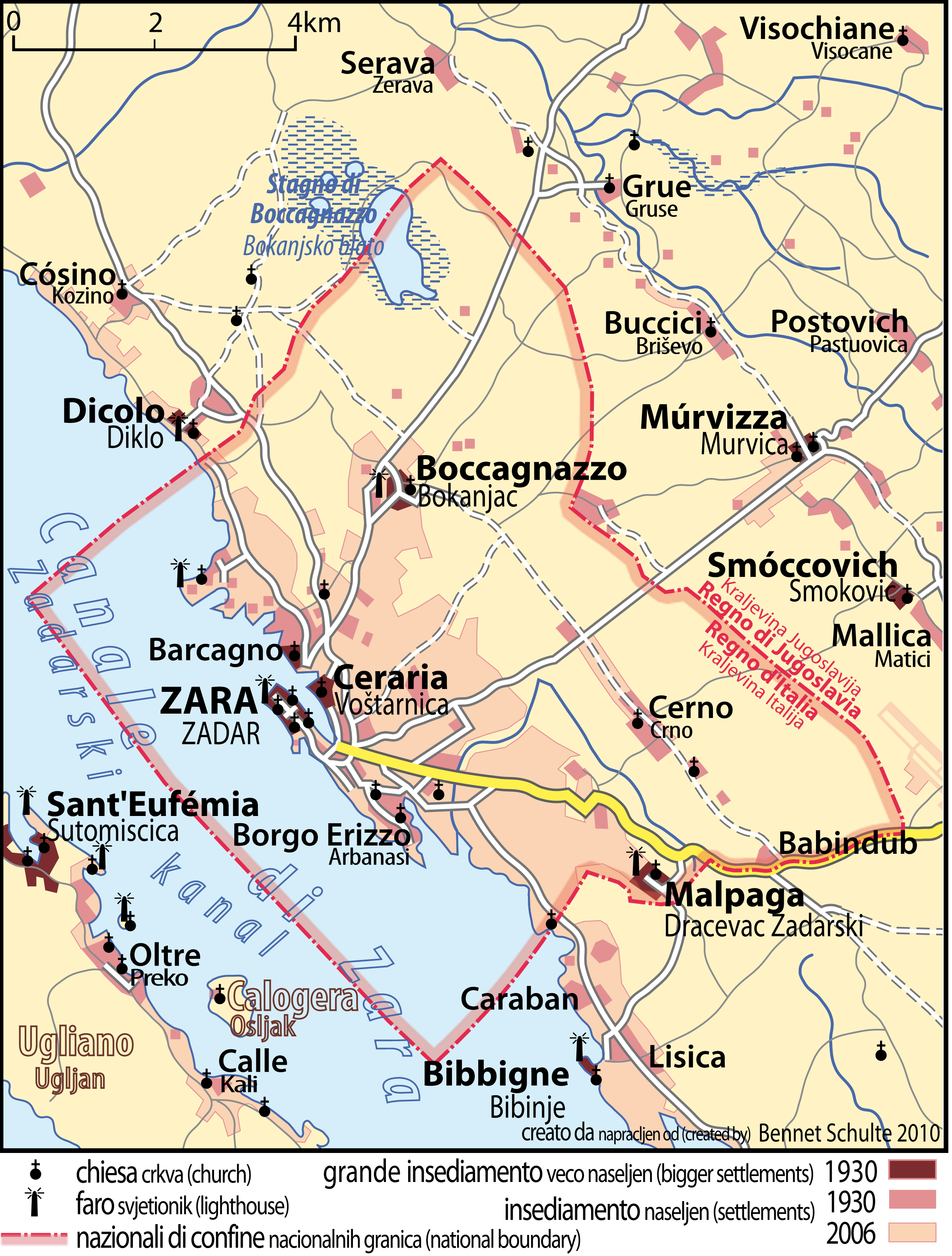 Italian enclave of city of Zadar in Croatia, 1920-1944